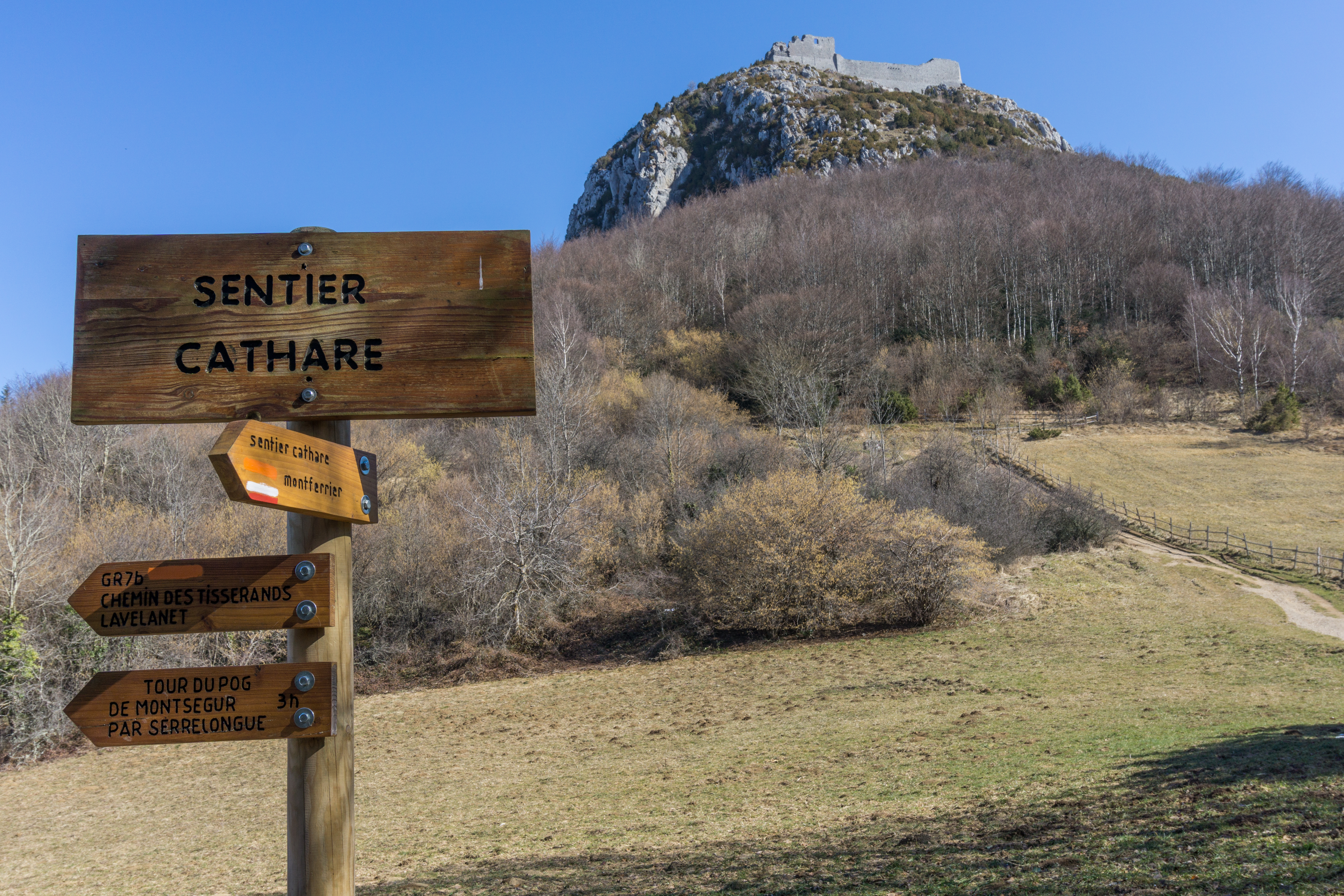 Château de Montségur & Sentier cathare sign. France